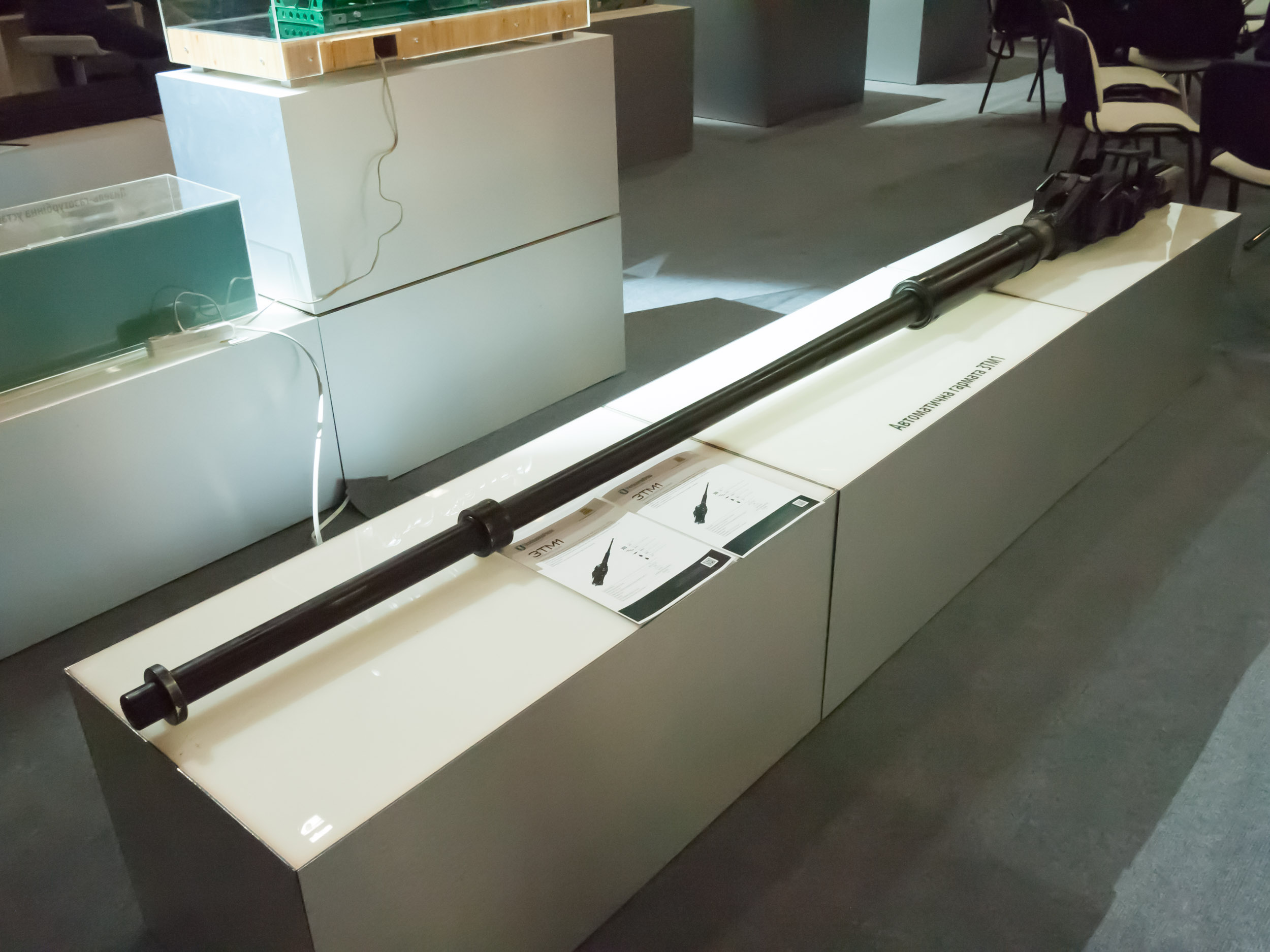 ZTM-1 30mm automatic cannon (2A72 analogue), 'Zbroya ta Bezpeka' military fair, Kyiv, Ukraine, 2018